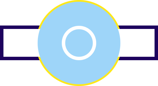 Aircraft Roundel of Royal New Zealand Air Force in Second World War